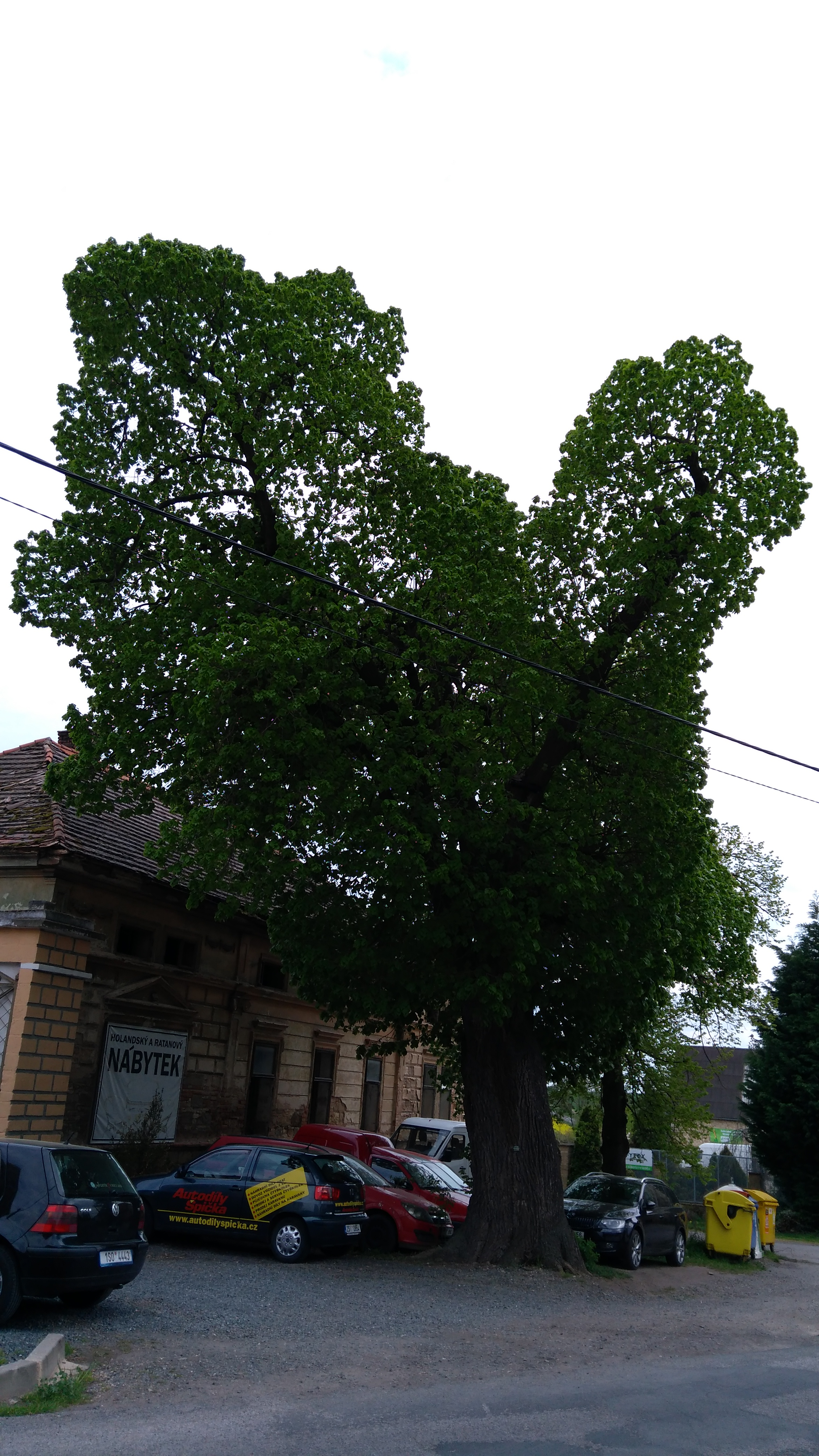 Lípa v Lotouši, a protected example of Small-leaved Lime (Tilia cordata) in village of Lotouš west of town of Slaný, Kladno District, Central Bohemian Region, Czech Republic. General view.